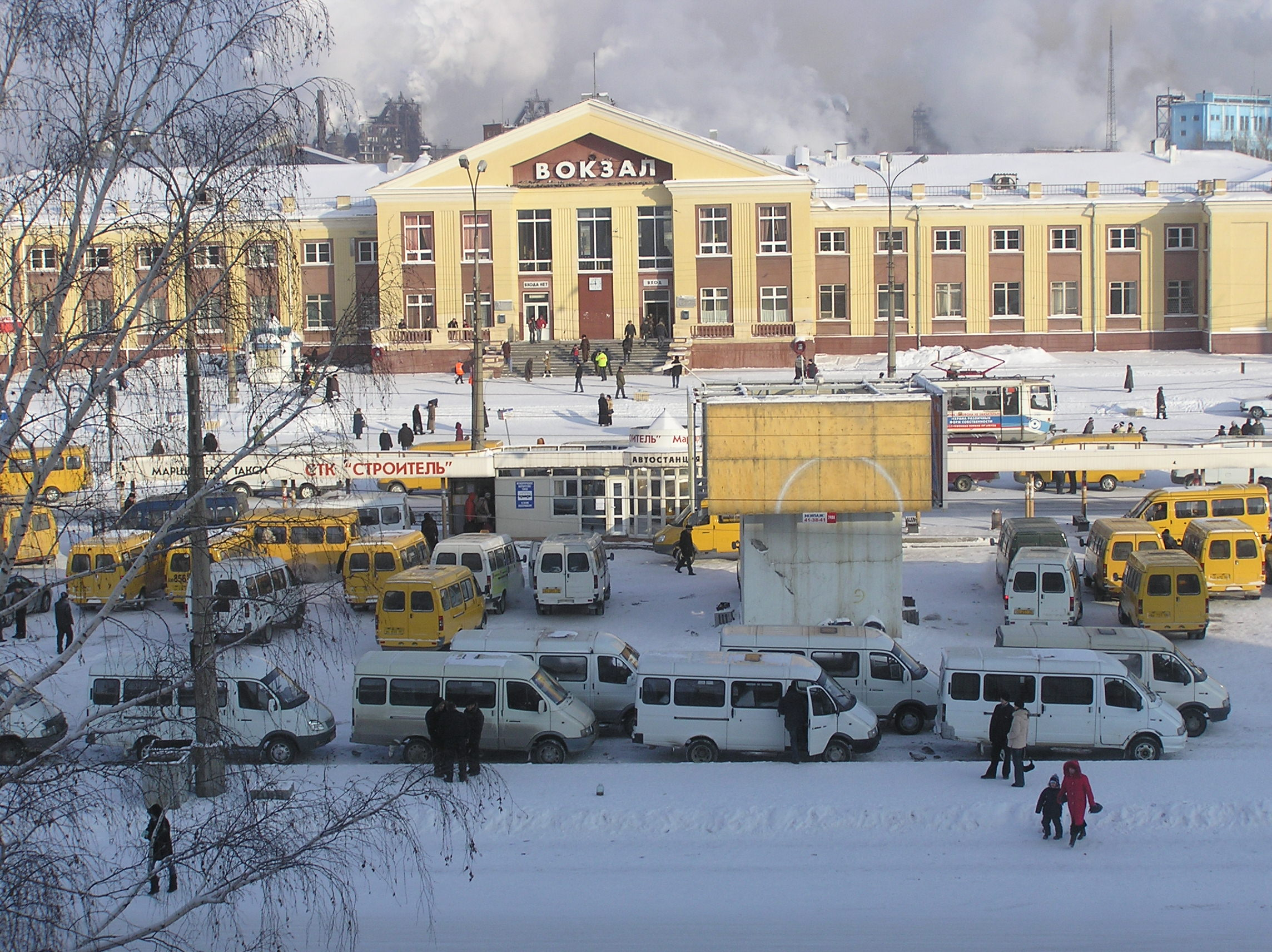 Trains station of Nishny Tagil, view from Hotel Tagil